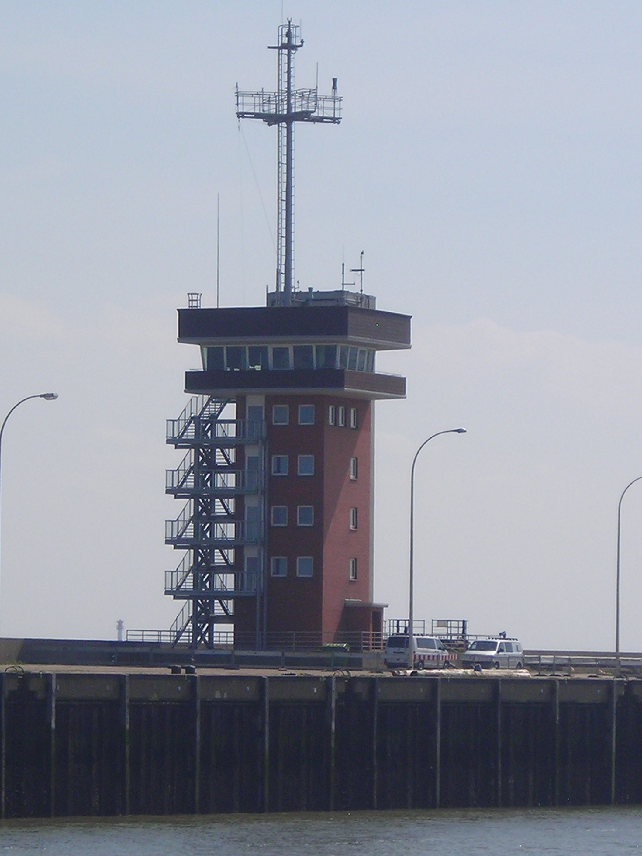 Signal station at Wilhelmshaven Naval Base